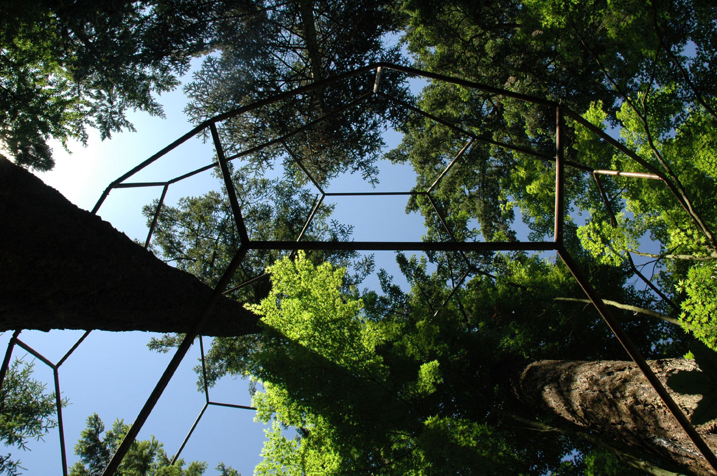 30' (9 m) buckyball structure by Julian Voss-Andreae. View from below. Location: Private property in Portland, Oregon, USA